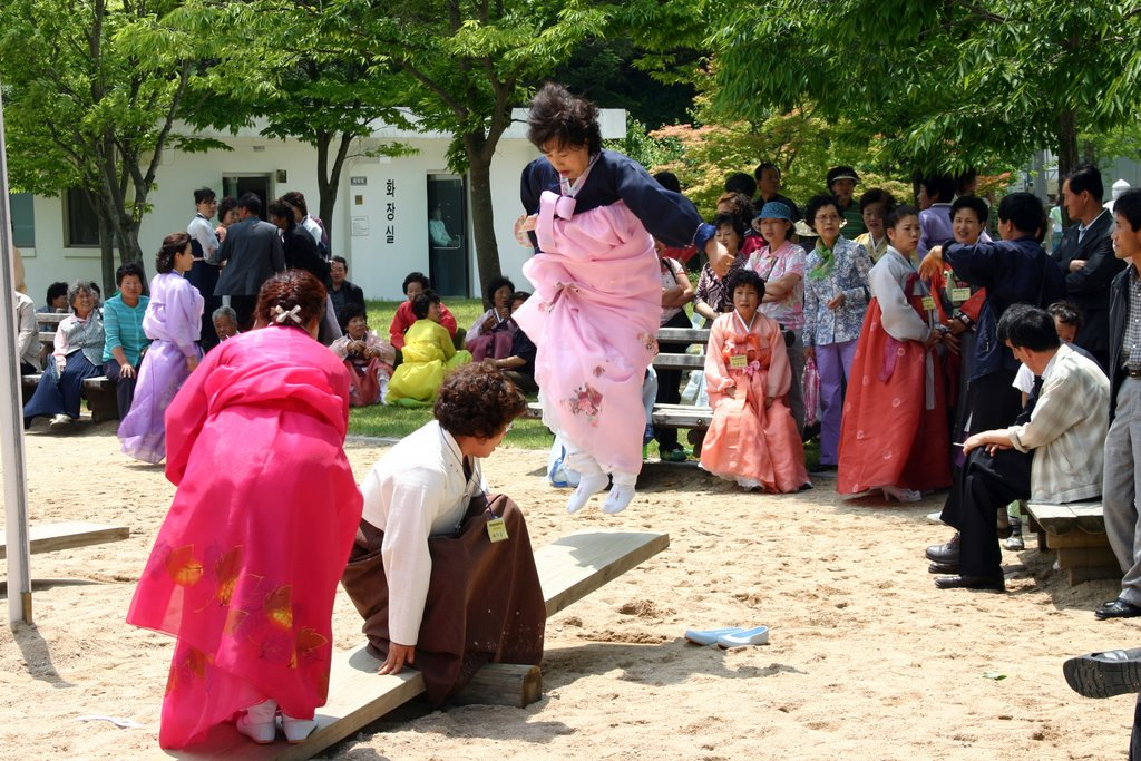 "The 5th Women Folk Plays for Dano Festival" held in a yard of the Andong Folk Museum in Andong City, Gyeongsangbuk-do, South Korea